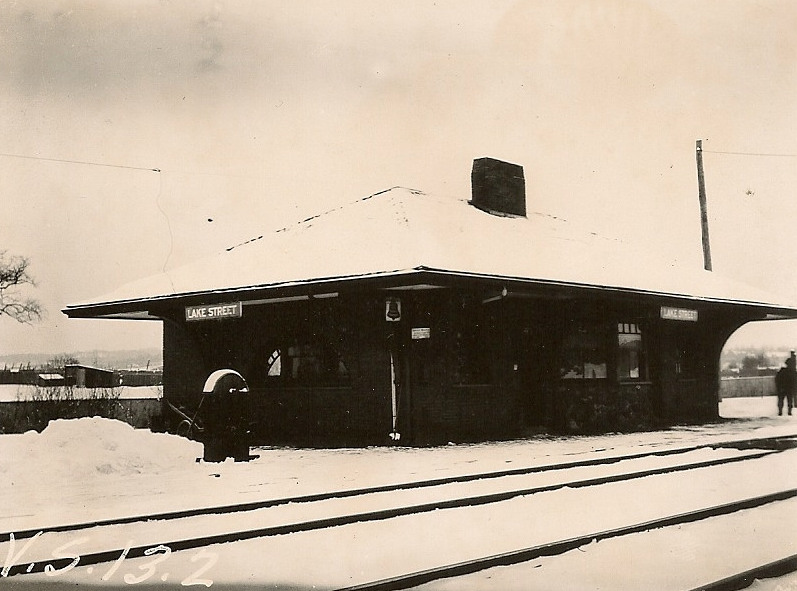 Lake Street station in Arlington on a circa-1915 valuation photo